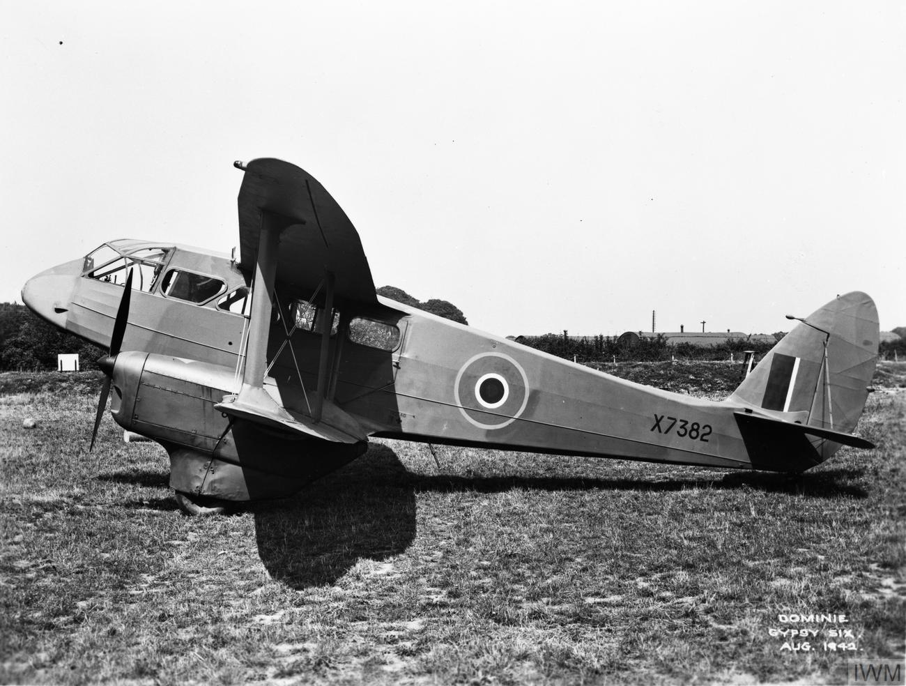 Aircraft of the Royal Air Force, 1939-1945- De Havilland Dh.89 Rapide and Dominie. Dominie C Mark 1, X7382, which served with the Air Transport Auxiliary, on the ground at Hatfield, Hertfordshire.